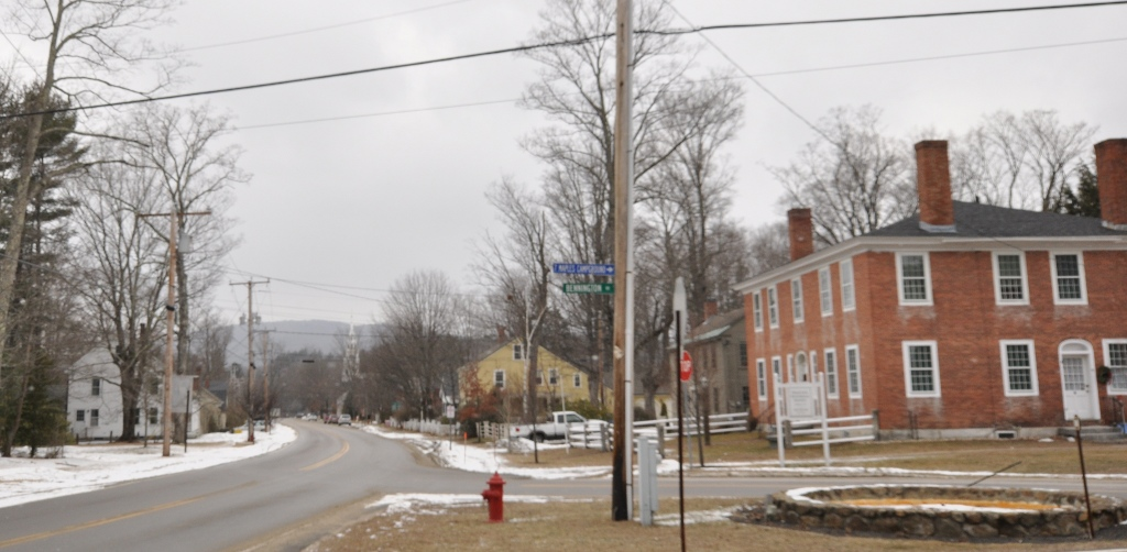 Main Street in village of Hancock, New Hampshire, part of the Hancock Village Historic District. Building in foreground is the Hancock Historical Society.